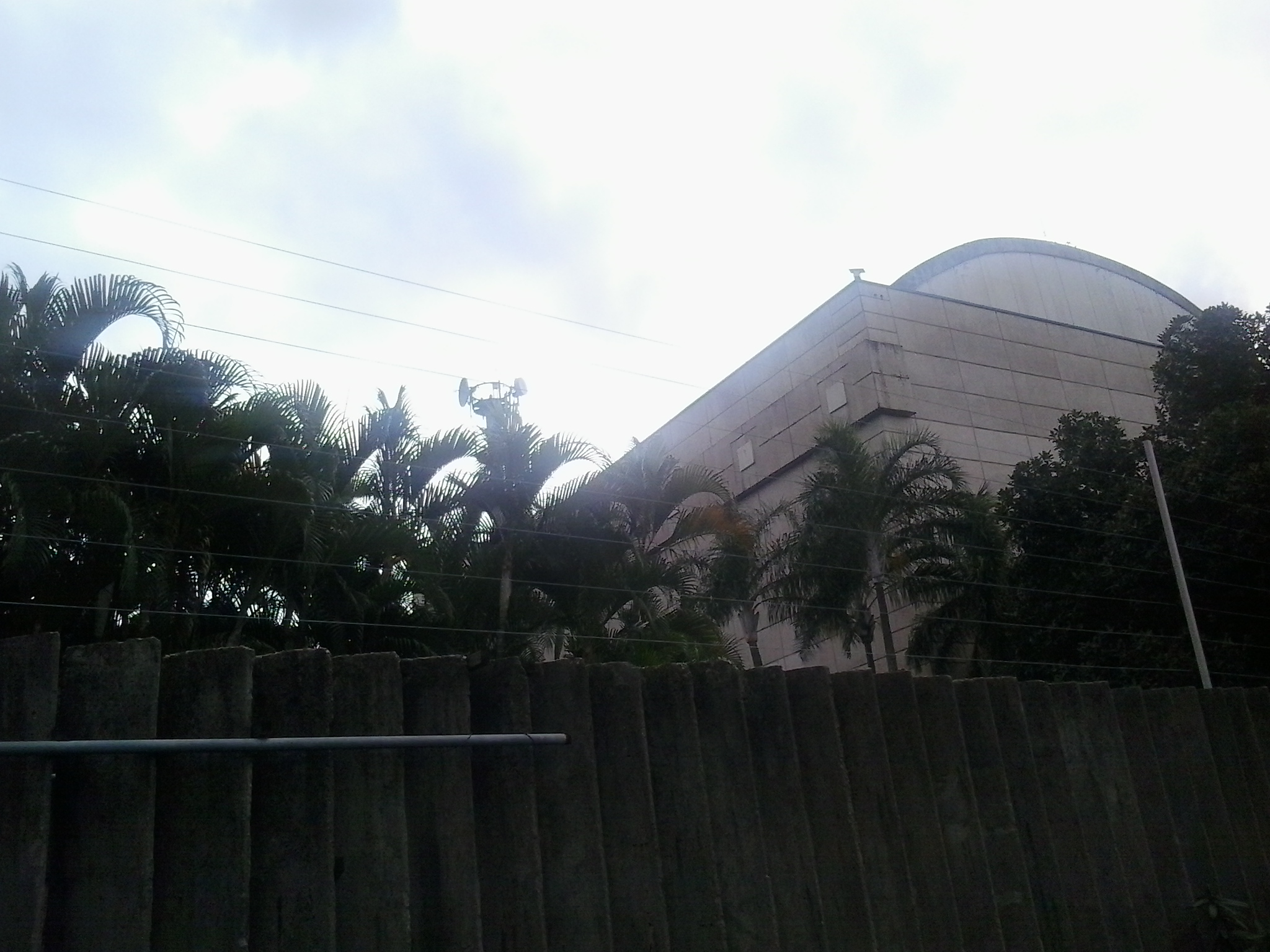 Globo Studios (Estúdios Globo), TV complex of TV Globo, channel 4 of Rio de Janeiro.